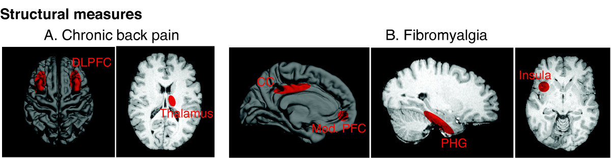 Schematic Examples of CNS Structural Changes. Red circles signify decreased gray matter density relative to controls. A. Subjects with chronic back pain show decreases in gray matter density in bilateral dorsolateral prefrontal cortex (DLPFC) and right anterior thalamus (adapted from [25]). B. Patients with fibromyalgia show decreases in cingulate cortex (CC), medial prefrontal cortex (Med. PFC), parahippocampal gyrus (PHG) and insula (adapted from [27]). 3-D surface renderings were created using Freesurfer. Borsook et al. Molecular Pain 2007 3:25